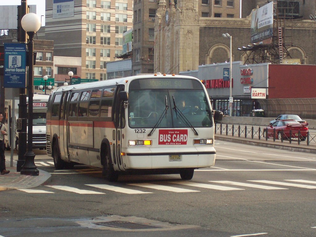 Looking southwest at A&C (Montgomery & Westside IBOA) #1232, owned by New Jersey Transit, at Journal Square in Jersey City, NJ.